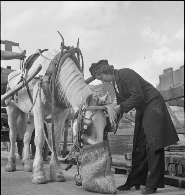 Van Girl- Horse and Cart Deliveries For the London, Midland and Scottish Railway, London, England, 1943 Lilian Carpenter gives Snowball the horse his lunchtime nose-bag during a pause between deliveries for the LMS Railway Company. The original caption states that Snowball used to get two nose-bags every day, but recent wartime cuts have meant that he now has just one.